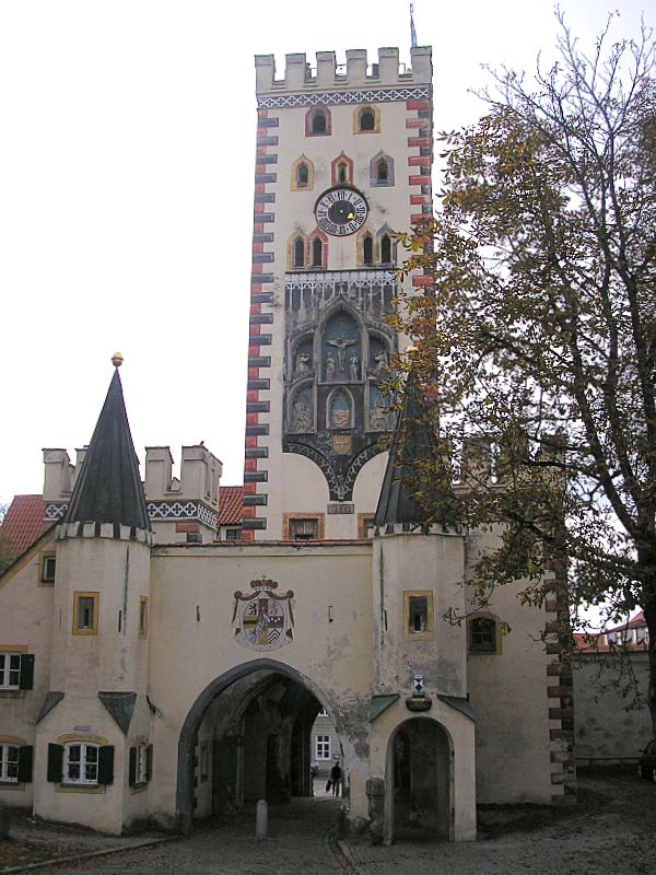 Landsberg am Lech (Oberbayern). Das spätgotische „Bayertor“. Eigene Aufnahme, Okt. 2006 / Landsberg am Lech (Upper Bavaria, Germany). The late gothic “Bayertor” (“Bavarian gate”). Own photo, Oct. 2006